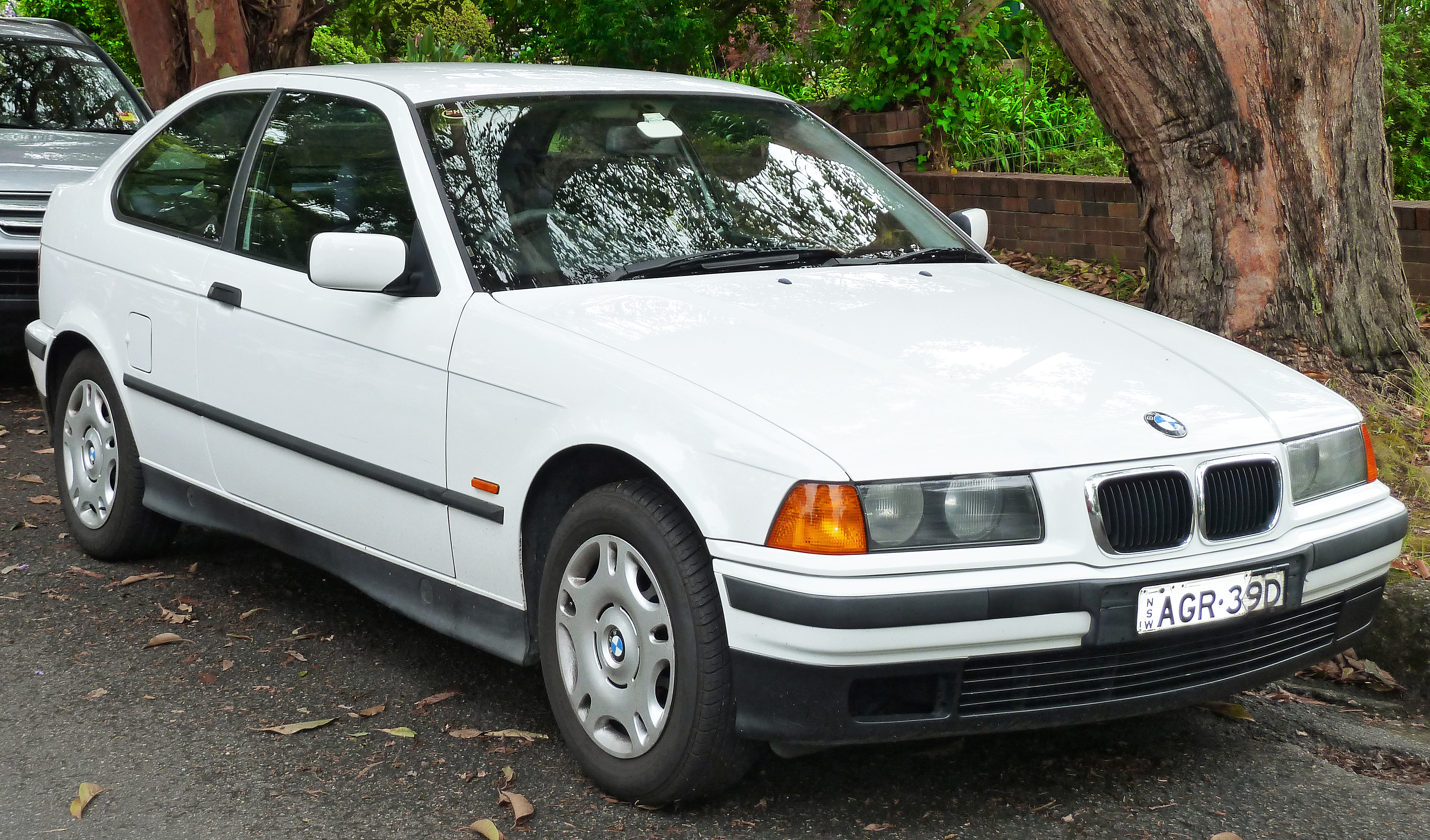 1998 BMW 316i (E36) hatchback. Photographed in Gordon, New South Wales, Australia.